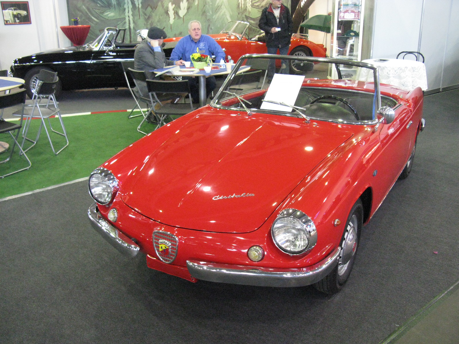 Abarth Cisitalia Spider 1961. Built in Argentina by Cisitalia's local daughter company, from mostly Italian parts. Sold as the Spyder Riviera, with 760, 800, or 850cc engines.